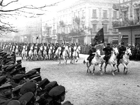 Soviet cavalry on parade in Lviv, after the city's surrender to the Red Army during 1939 Soviet invasion of Poland. The city, then known as Lwów, was annexed by the Soviet Union and today is part of Ukraine.